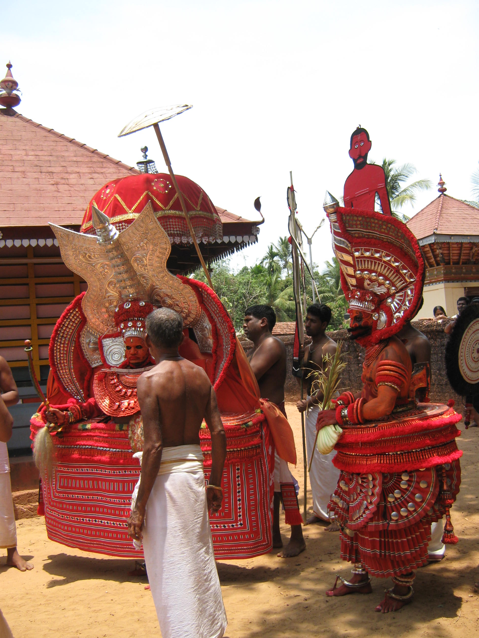 Theyyam Palot theyyam and koodeyullor performed at Vadayanthur kazhakam palot kavu at Thattachery , Nileshwar